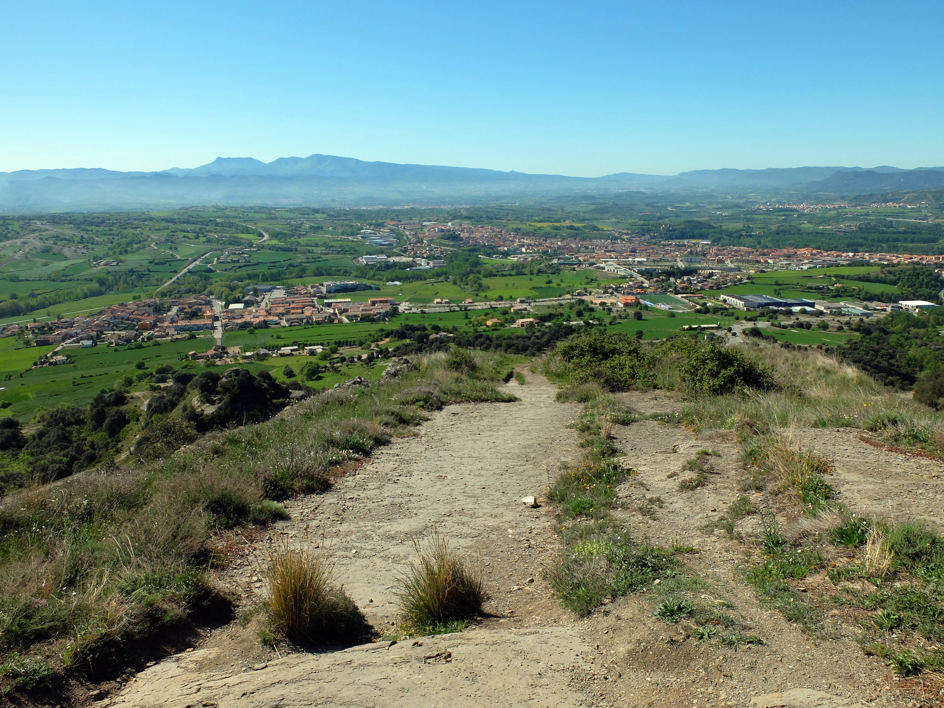 Landscape Plana de Vic from Torello Castel